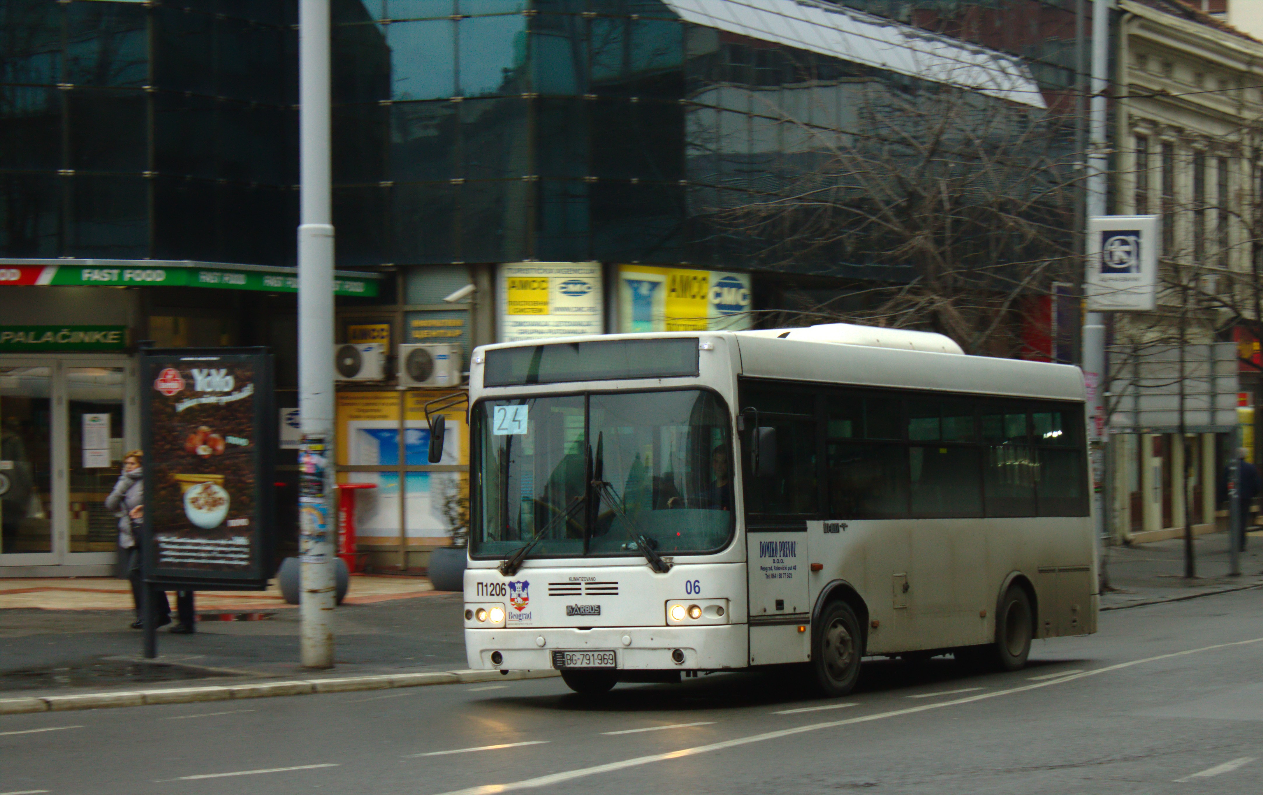 An urban bus in Belgrade, Serbia